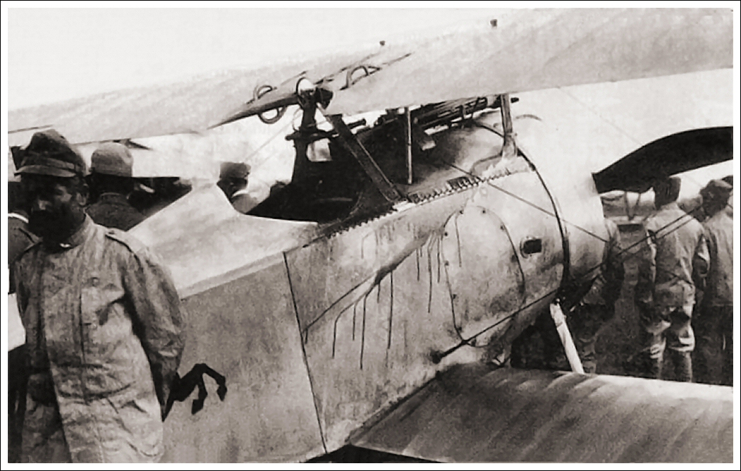 Francesco Baracca's Nieuport Ni. 17 just returned from a mission. A bit of the "prancing horse" is showed[3][4] Spring 1917